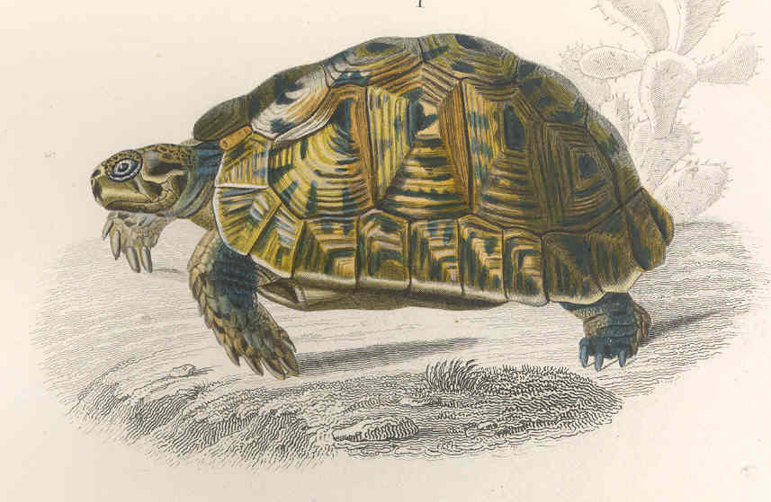 Testudo mauritanica Subject: Turtles Tag: Reptiles